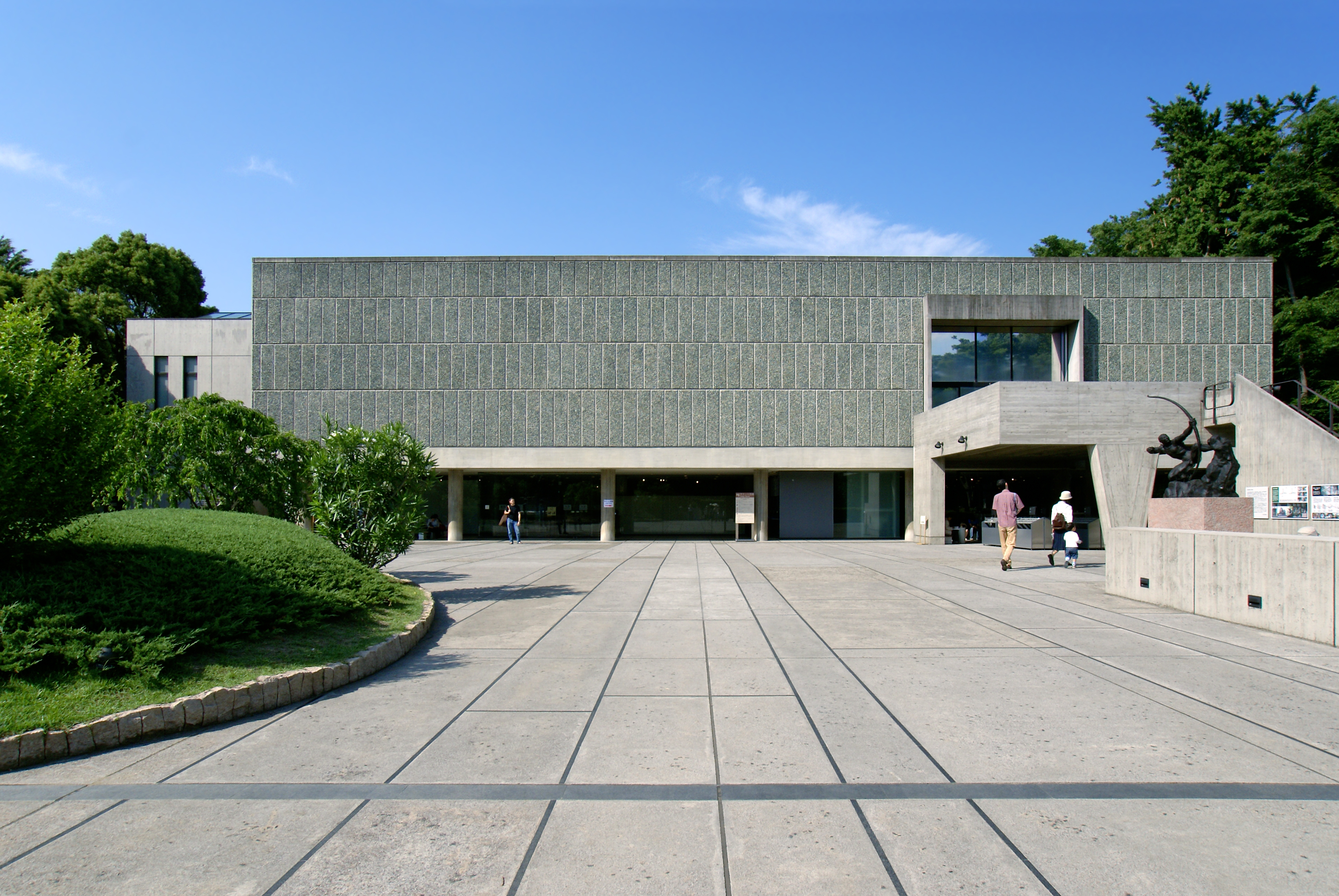 National Museum of Western Art in Ueno, Taito-ku, Tokyo, Japan